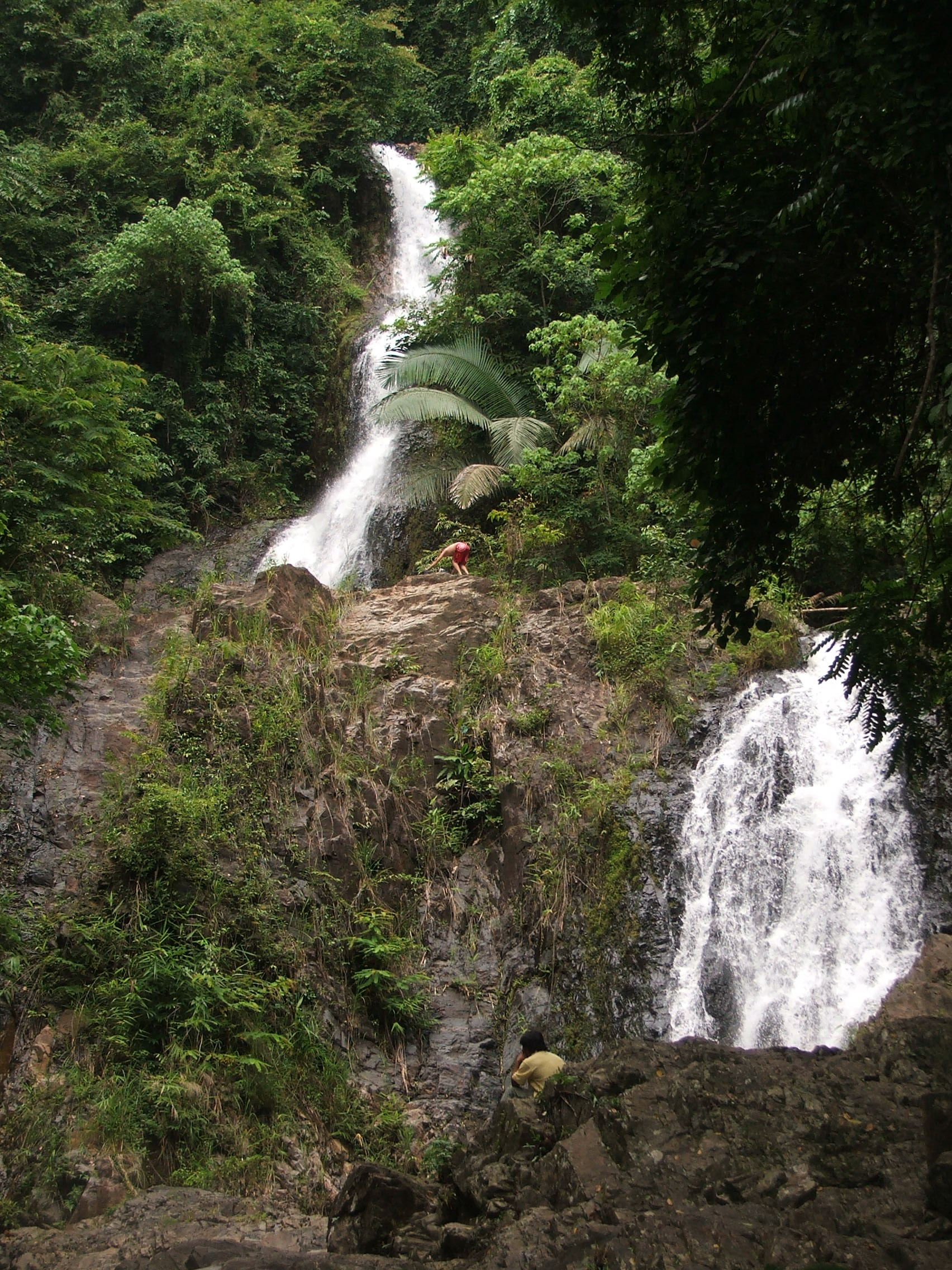 Huay Toh Watherfall - Nationak park Panom Bencha